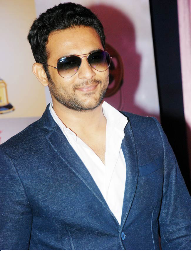 Copyright